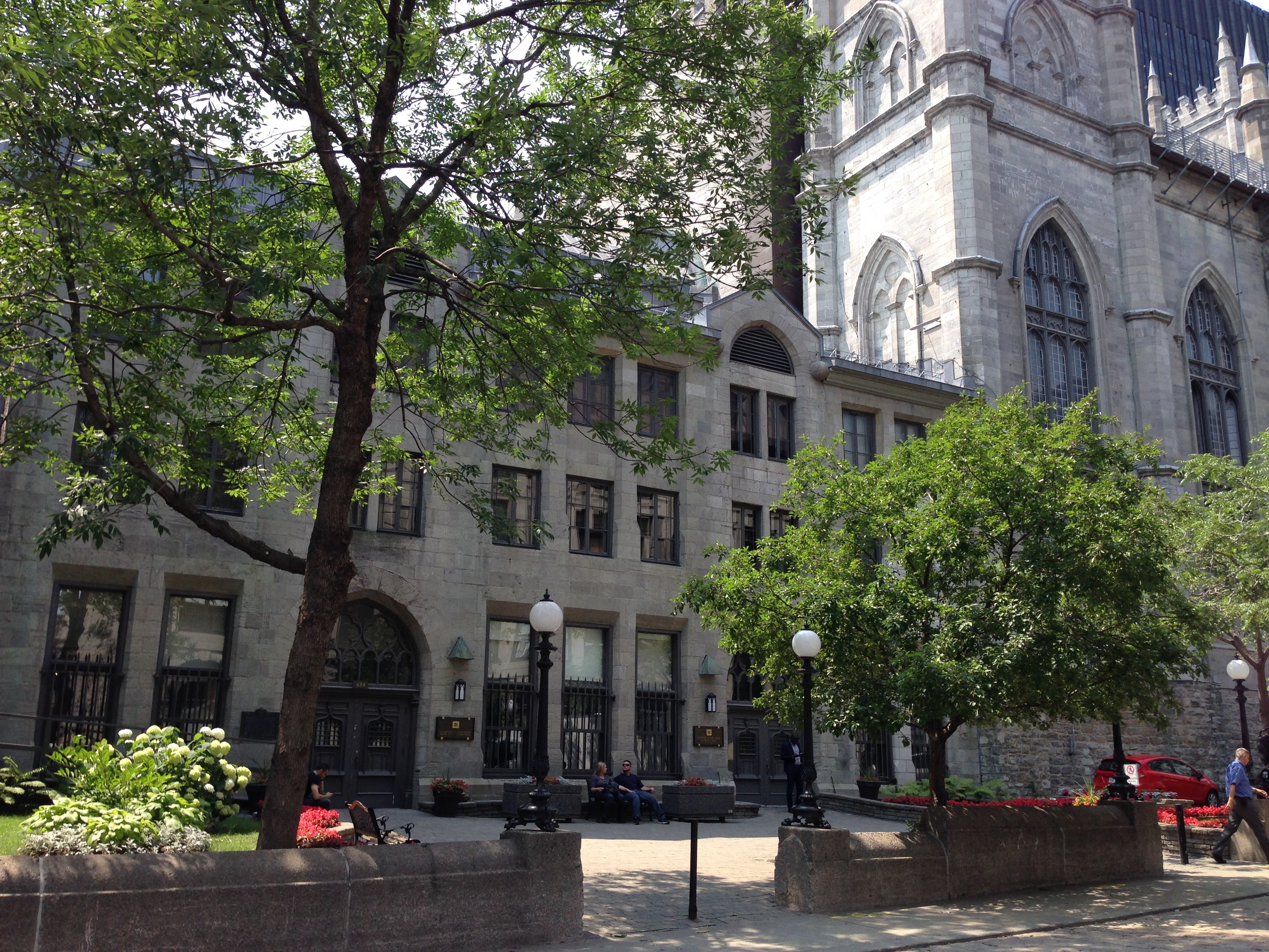 Chapelle Notre-Dame du Sacré-Cœur, 424-426, rue Saint-Sulpice, Montréal, Canada.